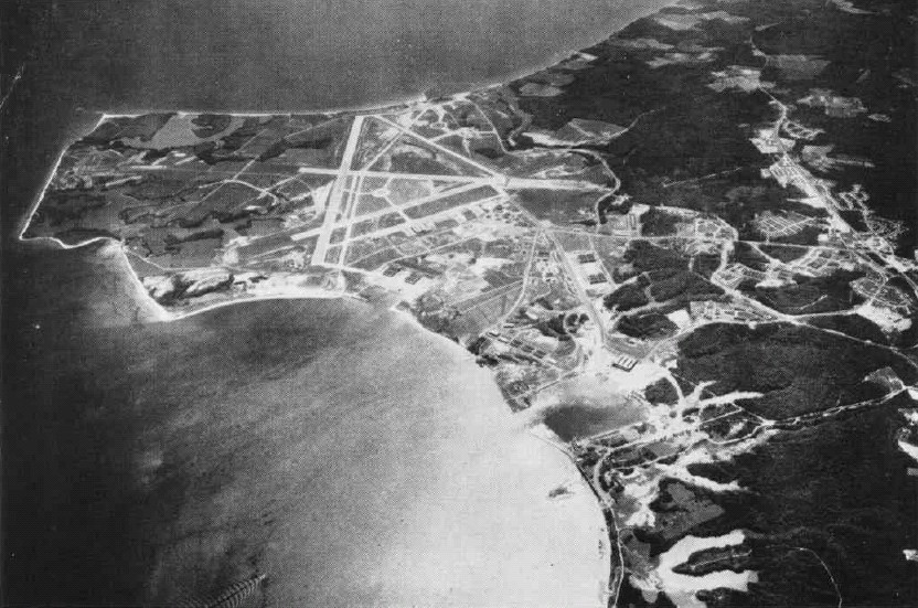 The Naval Air Station Patuxent River, Maryland, USA, about 1947-48.